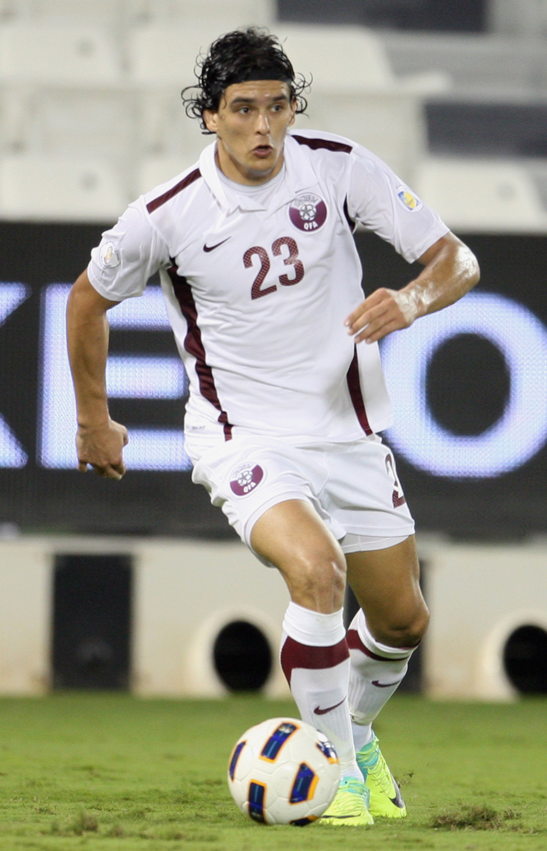 Qatar international Sebastian Soria in action.